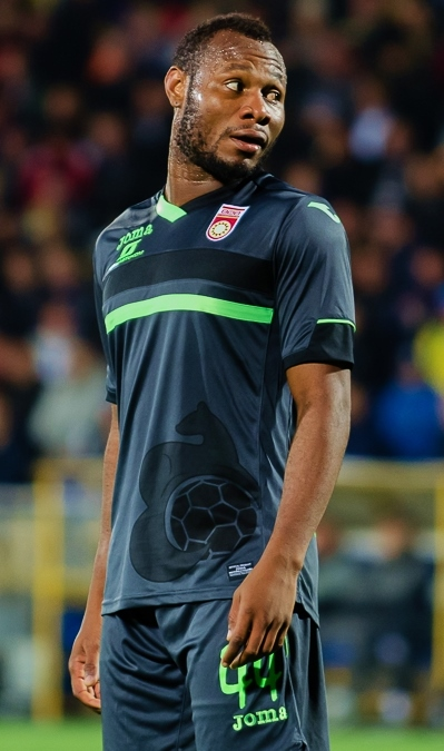 Sylvester Igboun